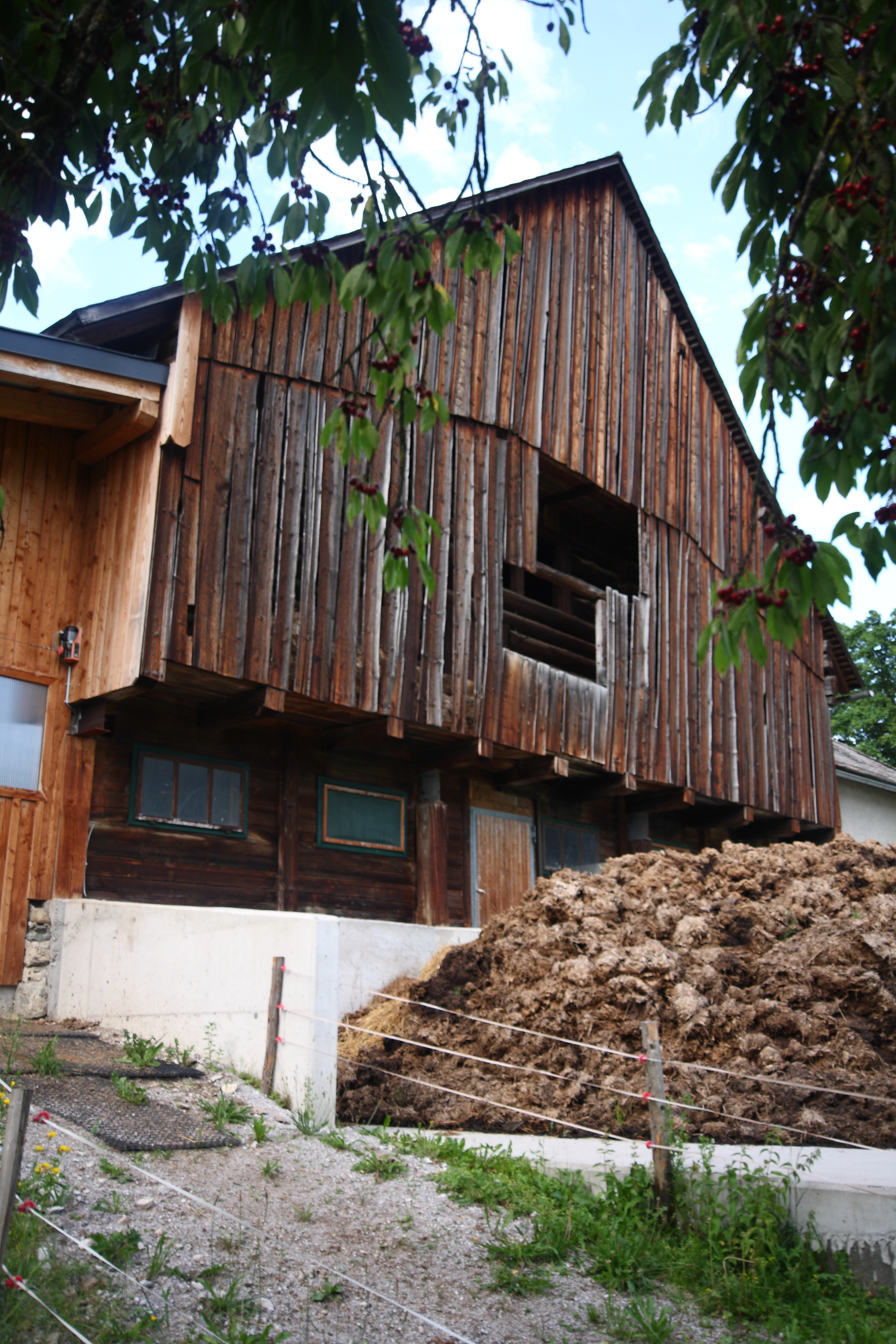 farm, Aignerhof, farm building, Pichl-Preunegg, Styria, Austria